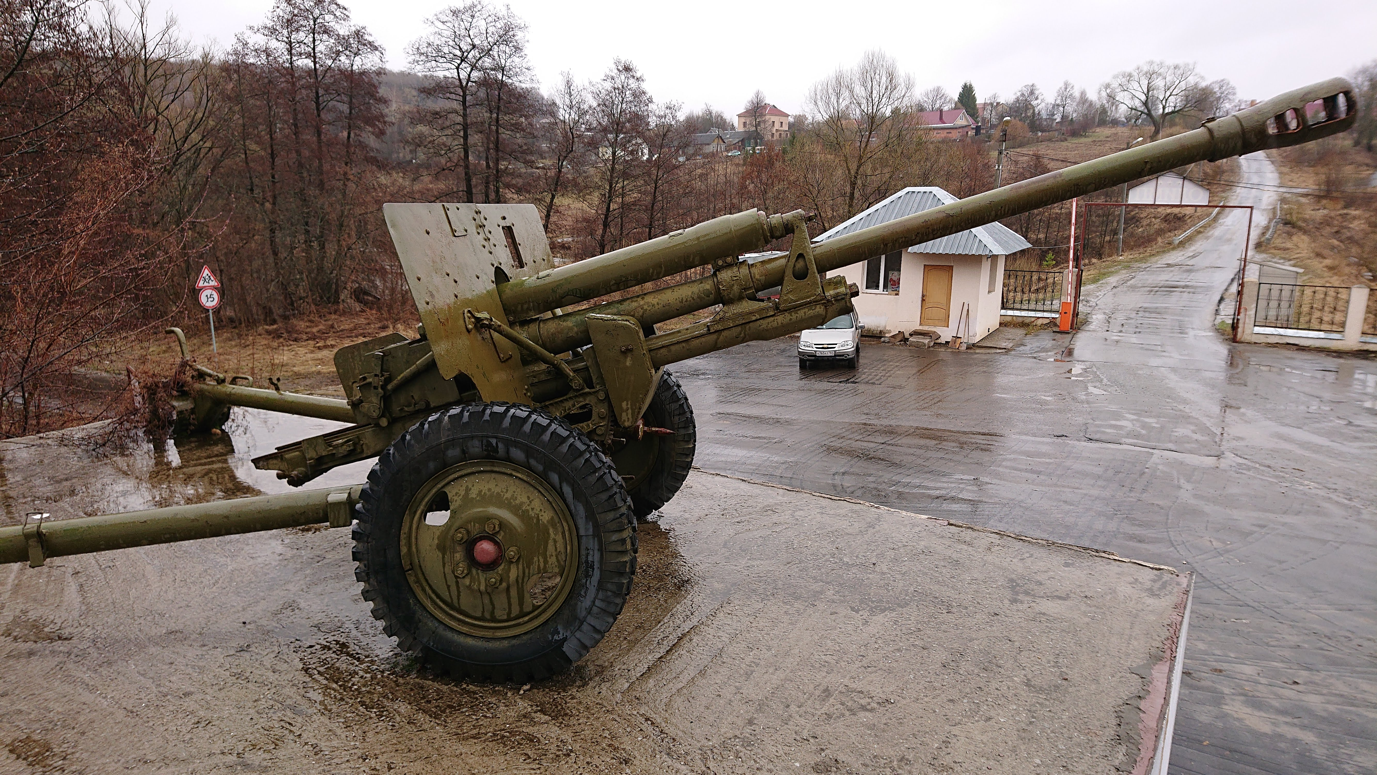 76 mm divisional gun (ZiS-3), Memorial dedicated Mogilev Artillery Brigade